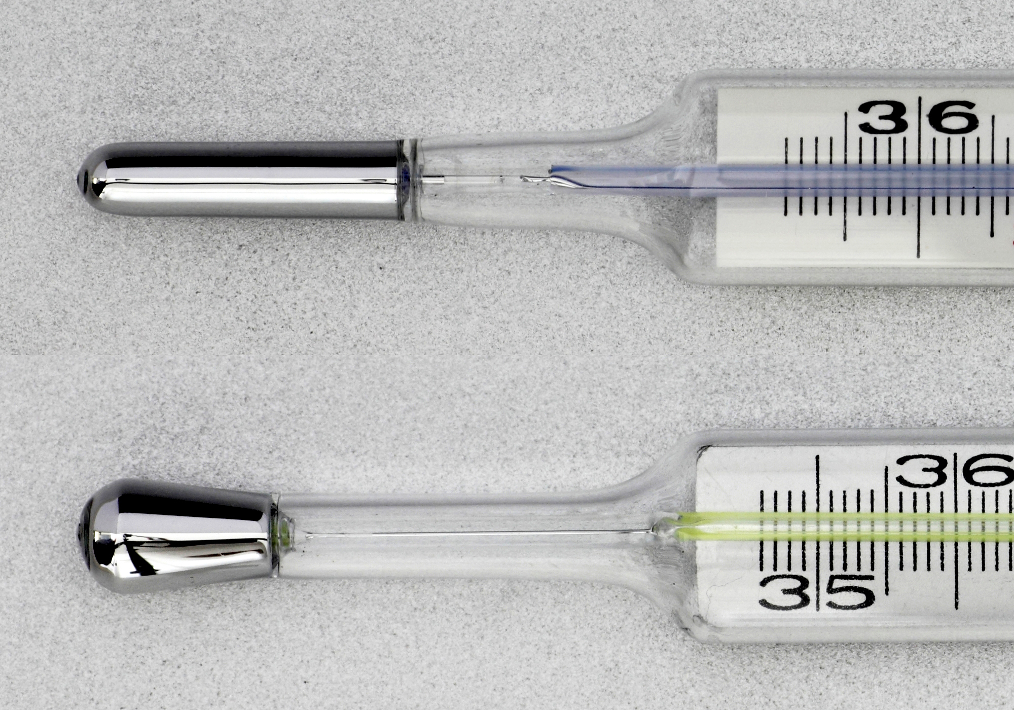 medical fever thermometer test prods (universal & rectal)